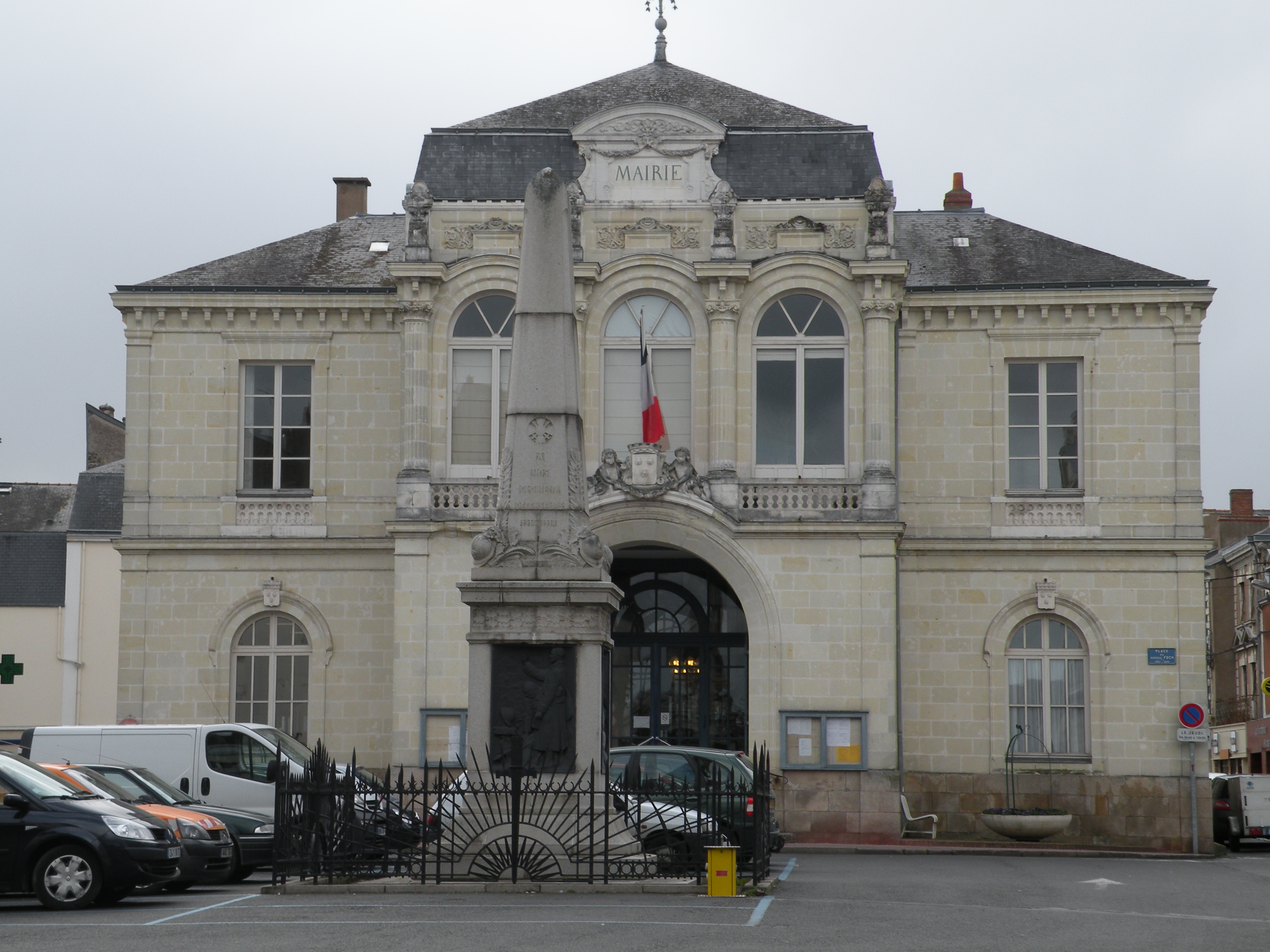 Town hall of Ancenis